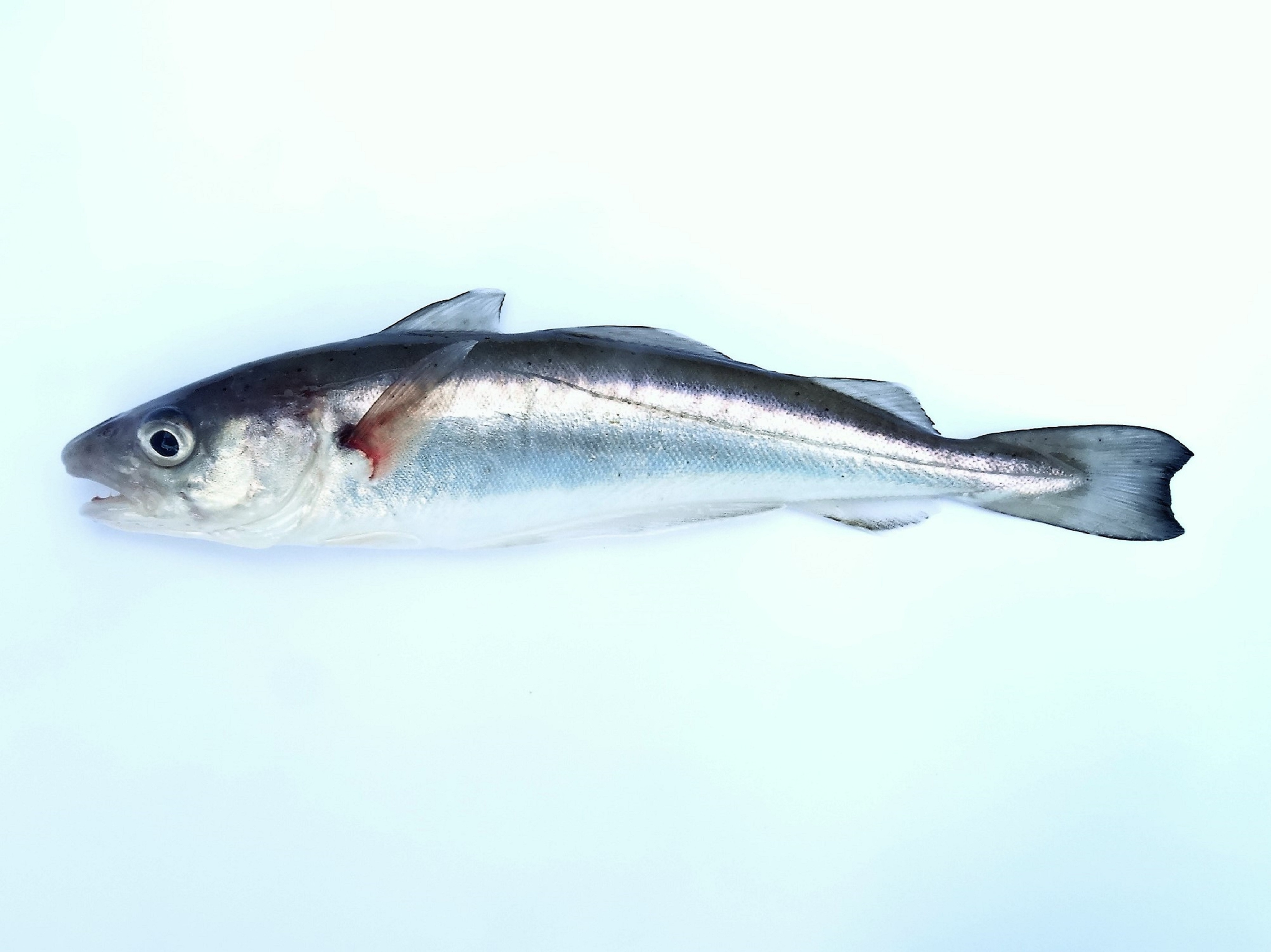 The whiting is a good sport fishing but also quite tasty